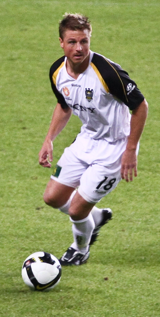 Ben Sigmund playing for Wellington Phoenix against Sydney FC in round 11 of the 08/09 A-League.